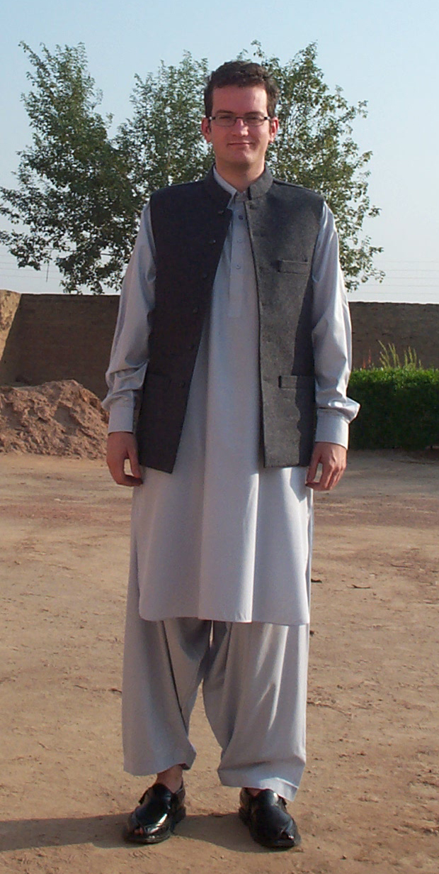 Style of clothing worn mostly by Pasthun people (Pathans).